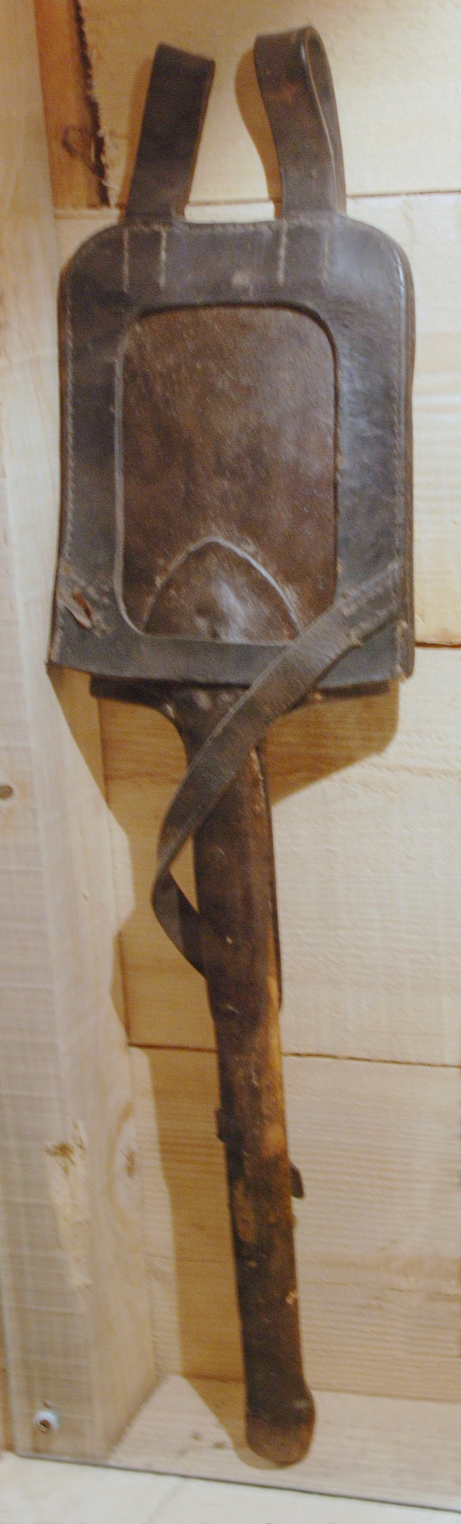 German military shovel, the World War I; the Verdun Memorial, Fleury-devant-Douaumont, France